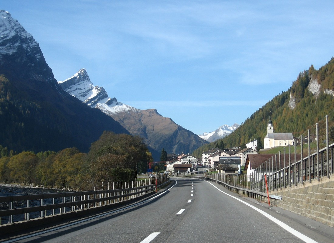 Crossing the Alps in Switzerland on A13 you will see Splügen and the distinct shape of Einshorn, the mountain further to the left.